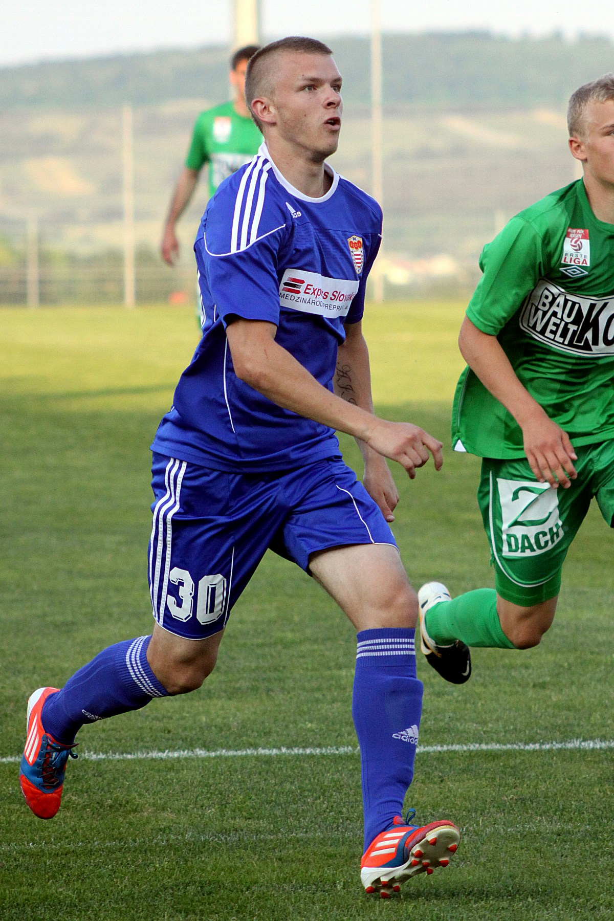 Friendly match SV Mattersburg vs FK Dukla Banská Bystrica (2:2) at 2013-06-21 in Mattersburg. – The photo shows Branislav Ľupták (FK Dukla Banská Bystrica).